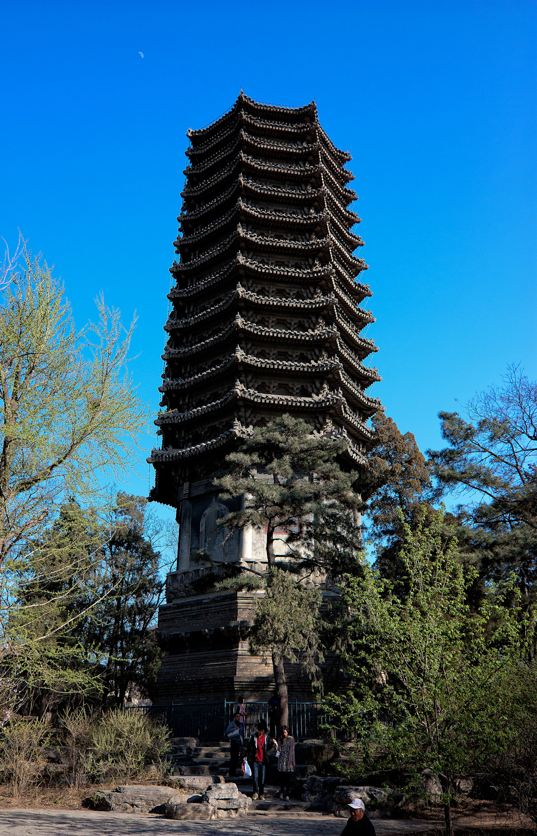 A pagoda inside the Peking University.